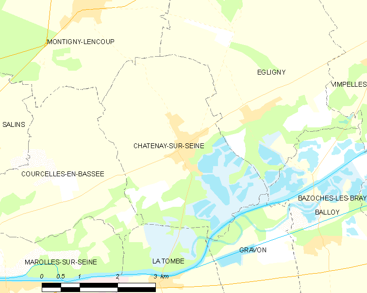 Map of French municipality Châtenay-sur-Seine